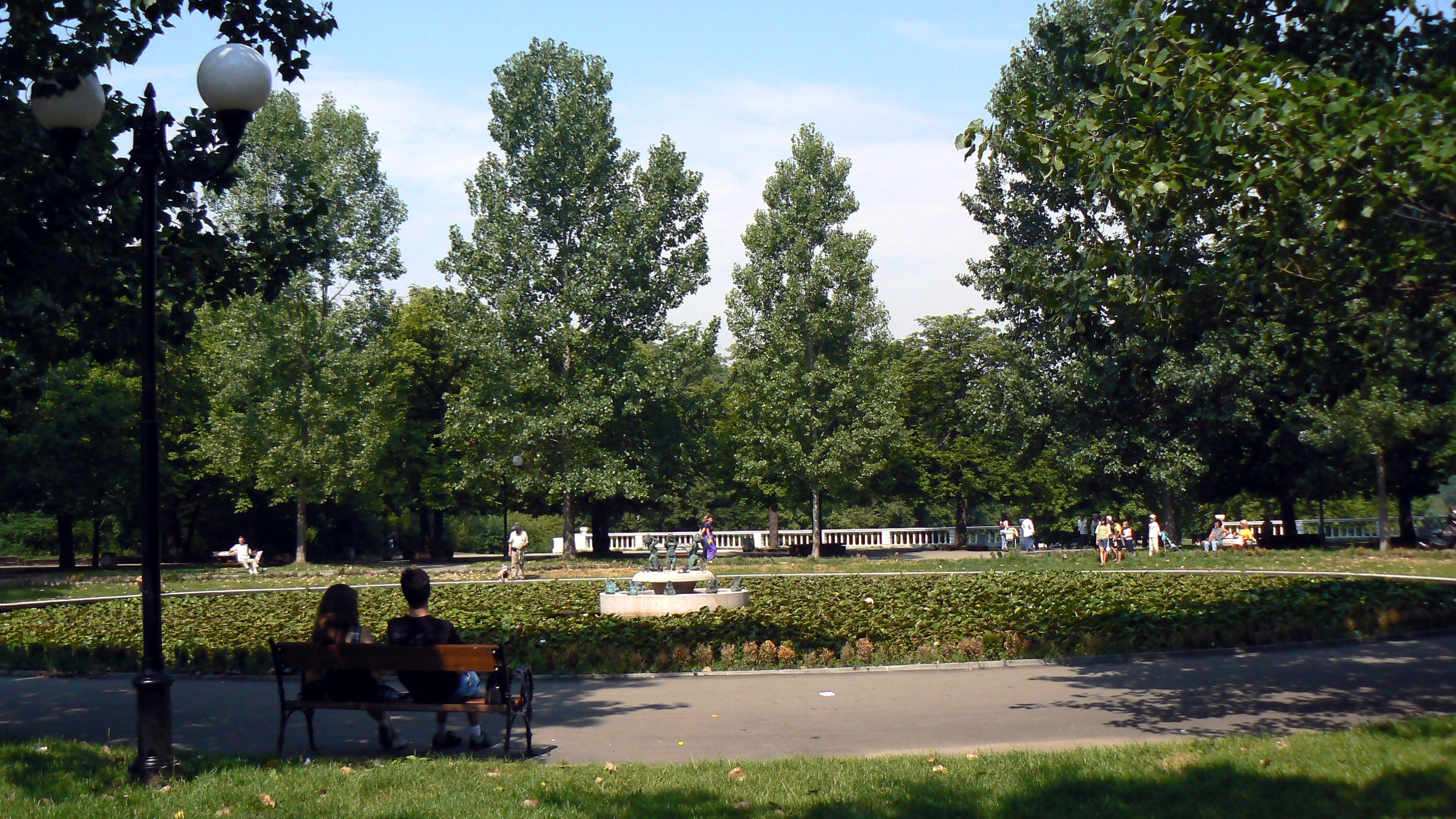 The lilly lake, Borisova garden, Sofia